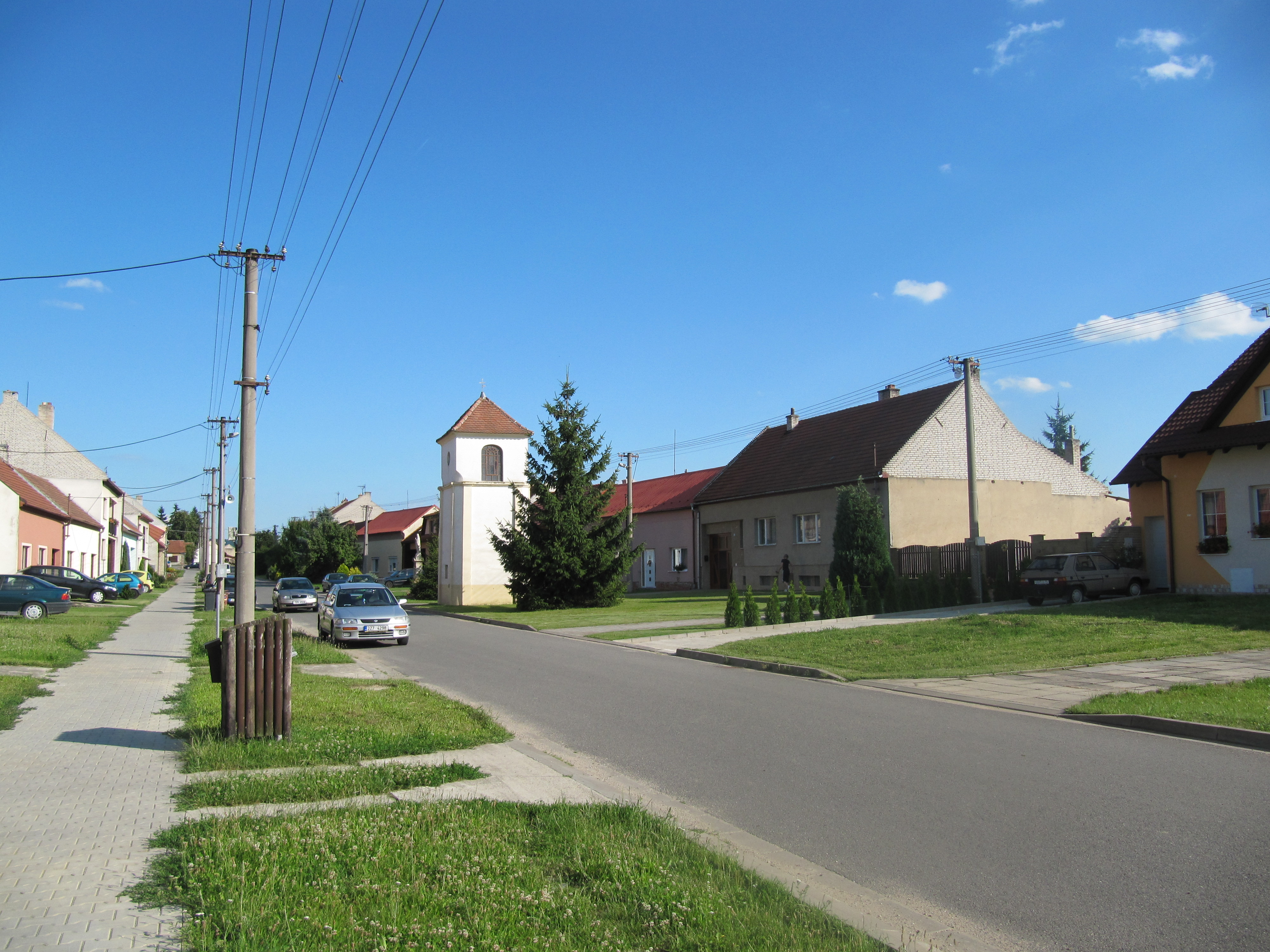 Ostrožská Nová Ves in Uherské Hradiště District, Czech Republic, part Chylice. Common with belfry.